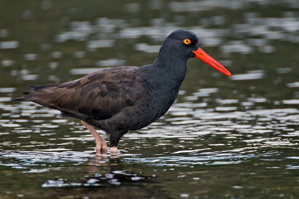 Black Oystercatcher, Esquimalt Lagoon, Colwood, Near Victoria, British Columbia